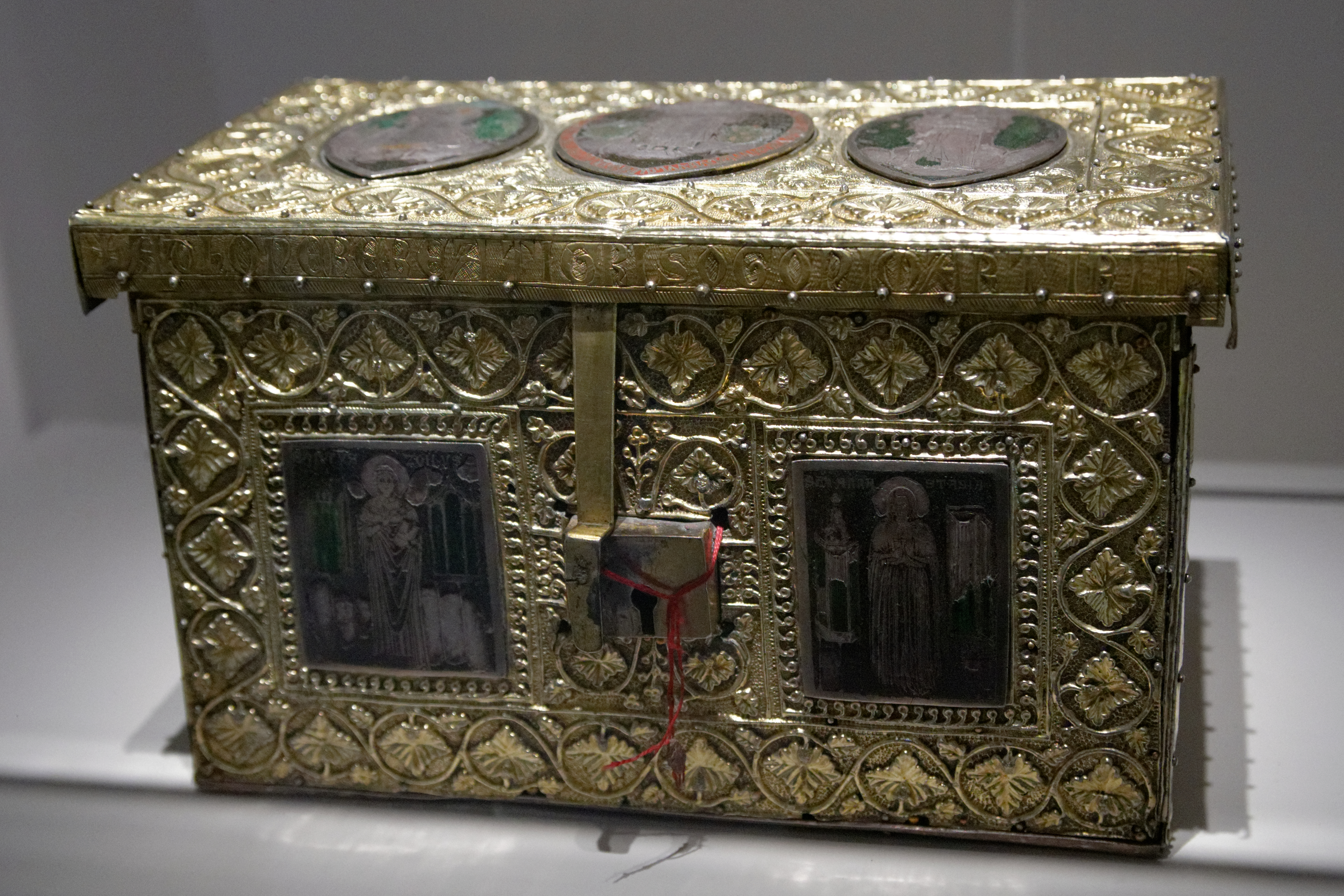 Cask reliquary of St Christopher.